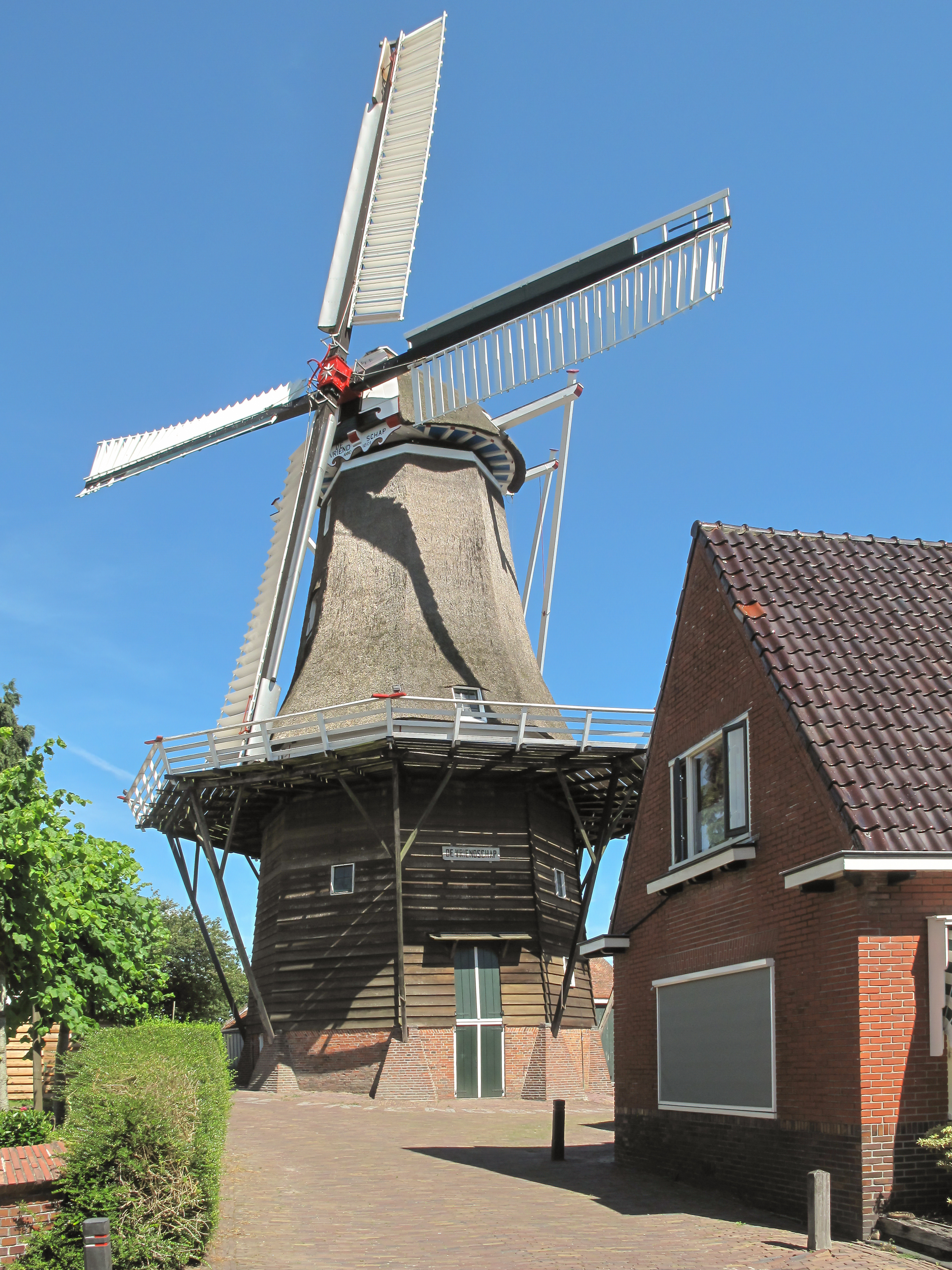 Winsum, windmill: korenmolen de Vriendschap